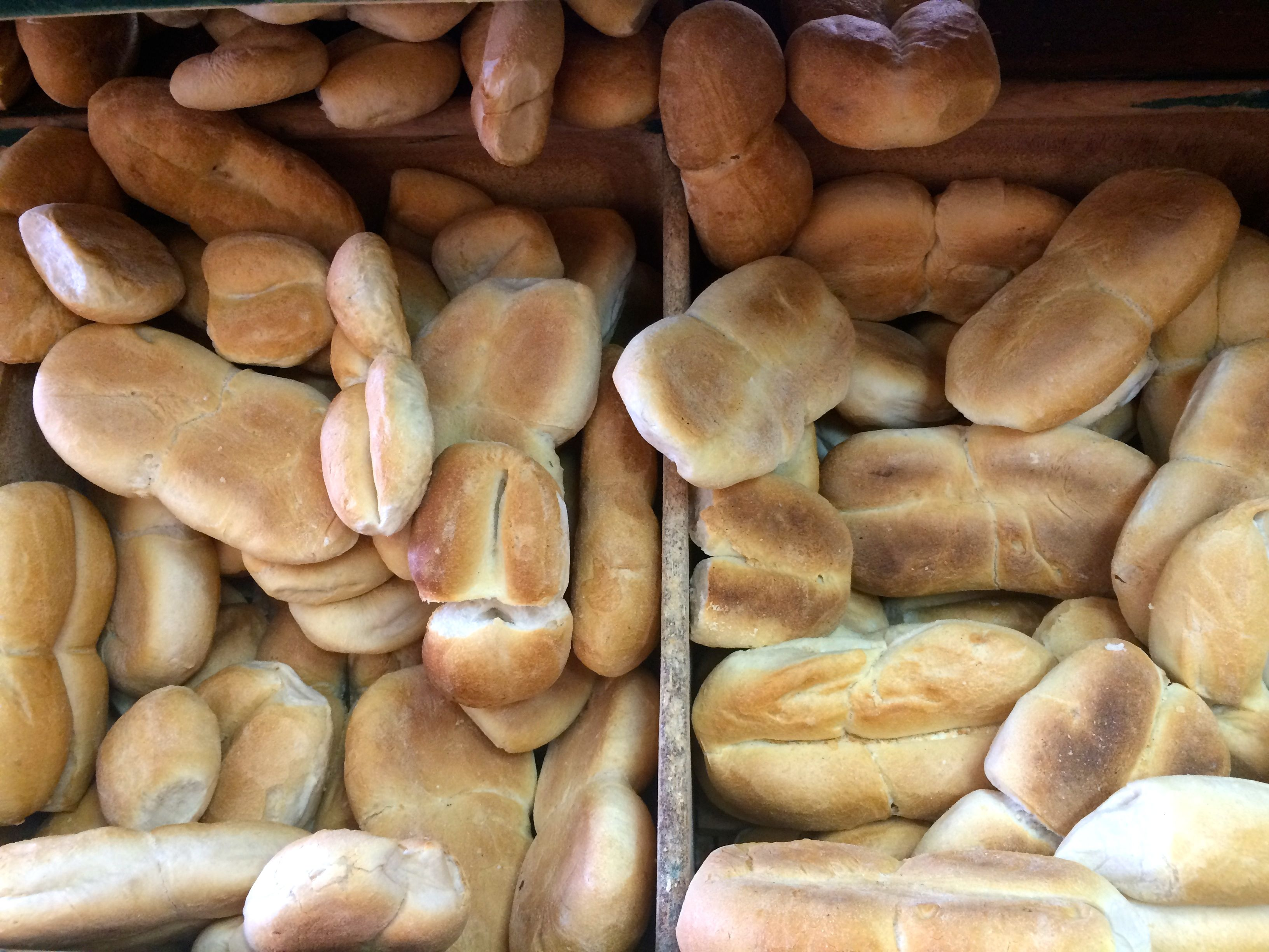 Pan Batido